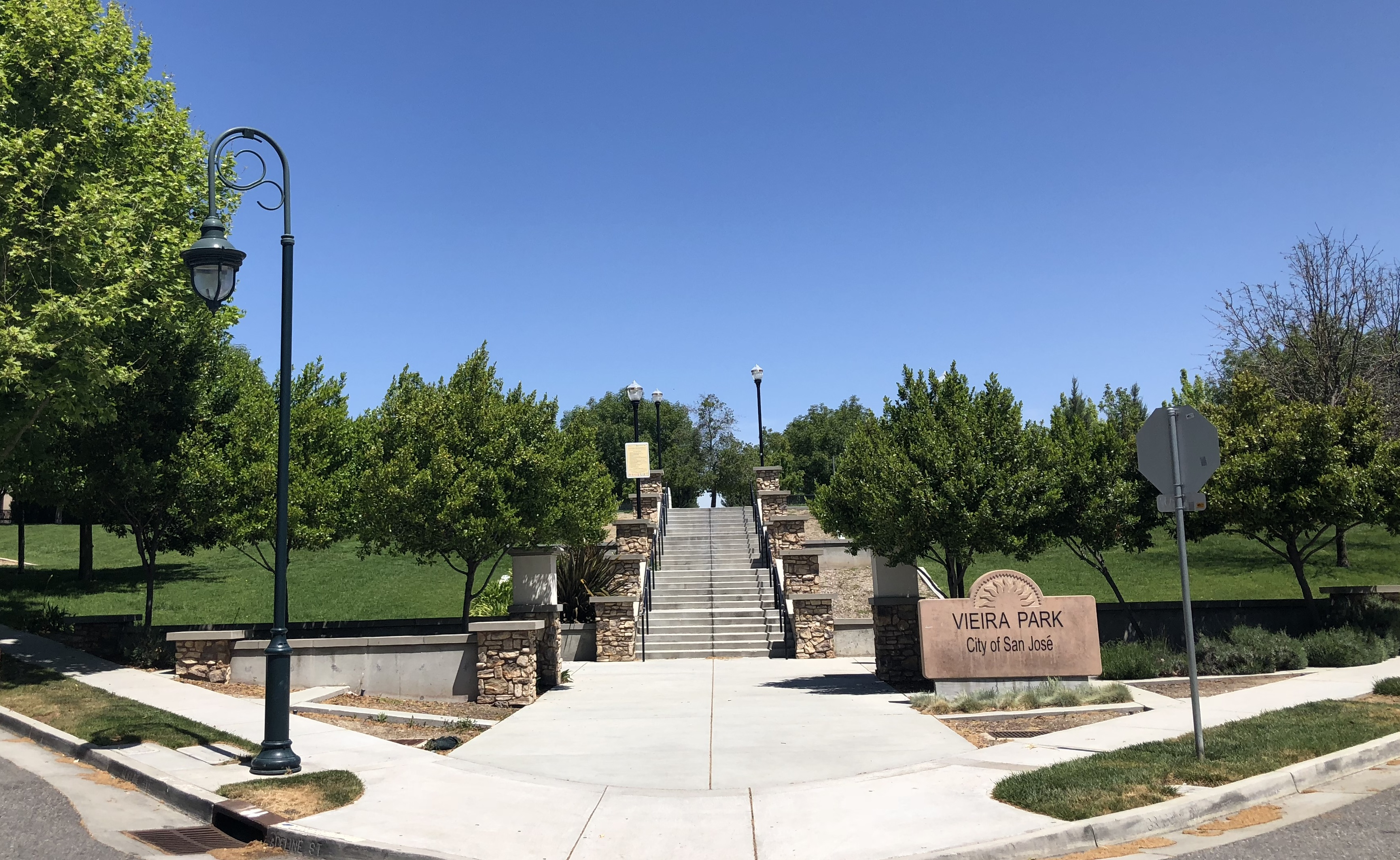 Viera Park in San Jose